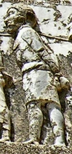 Statue of Nebuchadnezzar IV